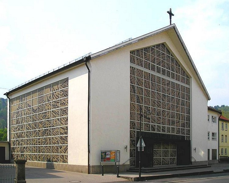 Church “Unsere Liebe Frau” in Town Meiningen, Germany, built 1972